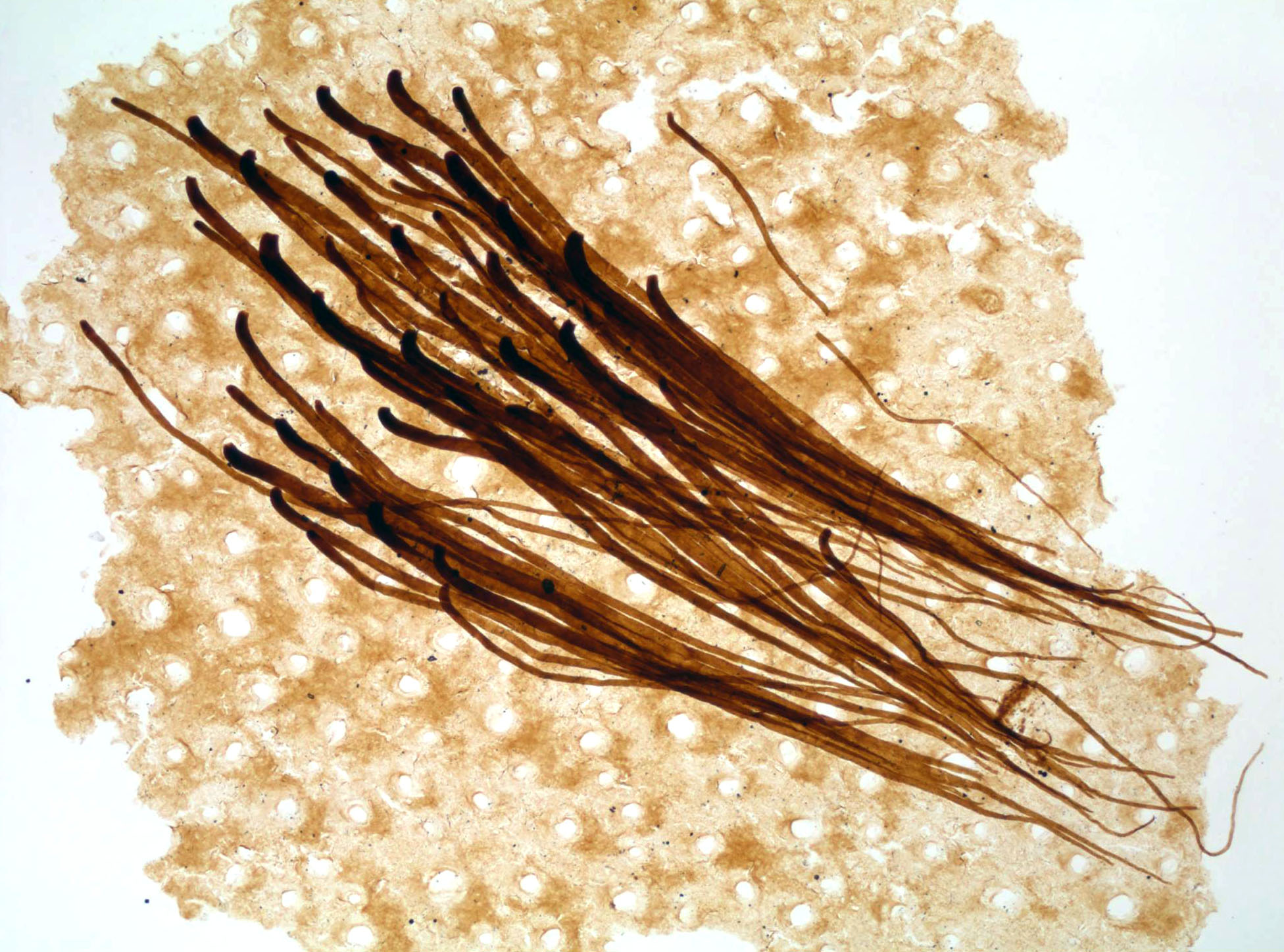 A fragment of Silurian arthropod cuticle with attached setae, extracted from the Burgsvik beds by acid maceration. Approximate image width: 100 µm